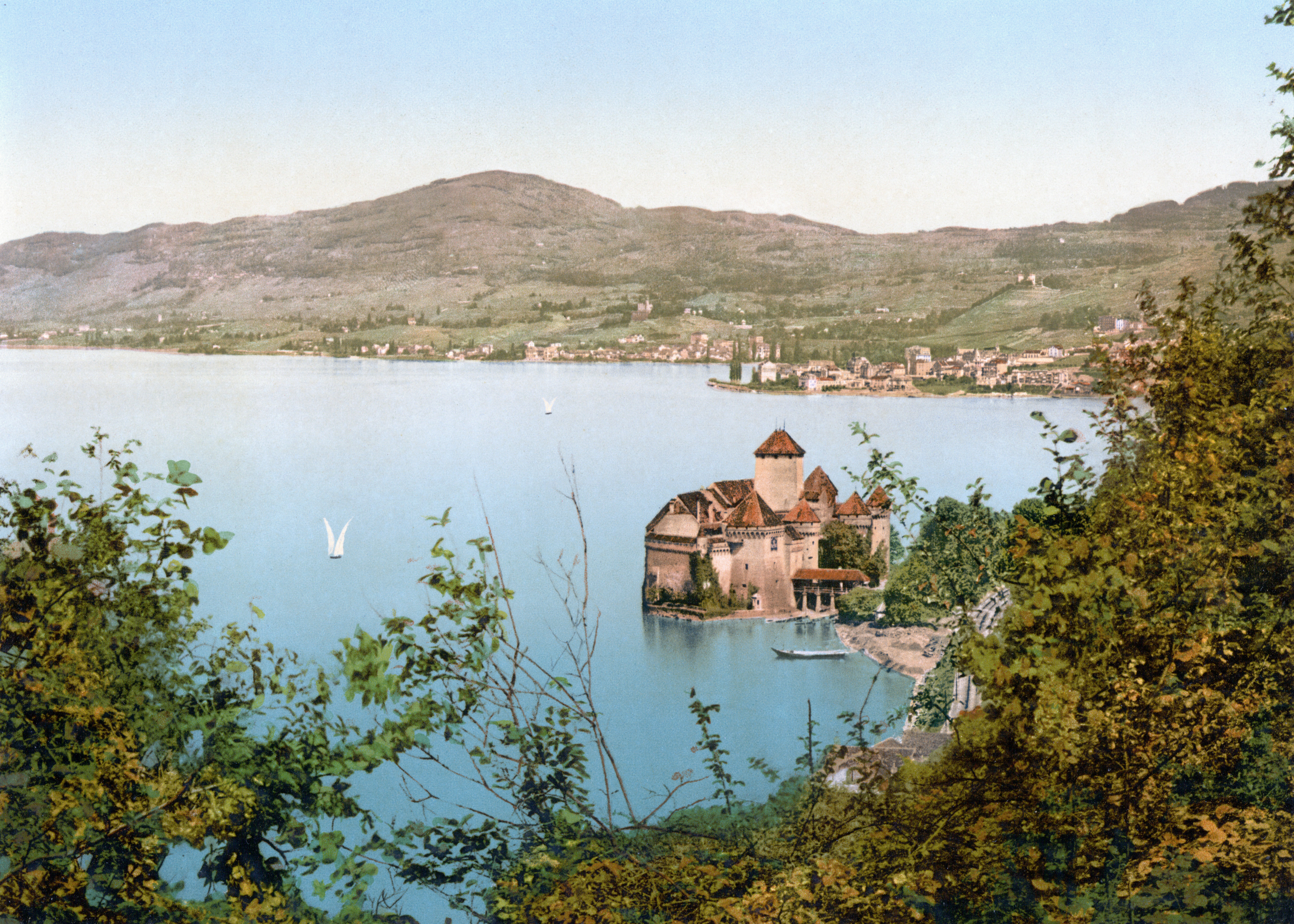 Chillon Castle, Montreux, Geneva Lake, Switzerland